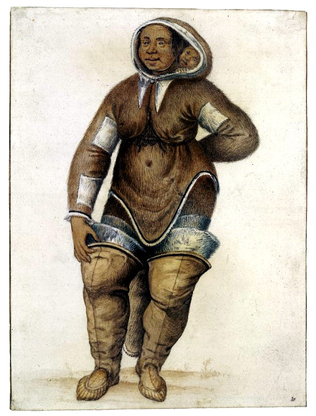 Arnaq and her daughter Nutaaq who were Inuit from Frobisher Bay; woman in sealskin parka with baby in hood Pen and ink and watercolour